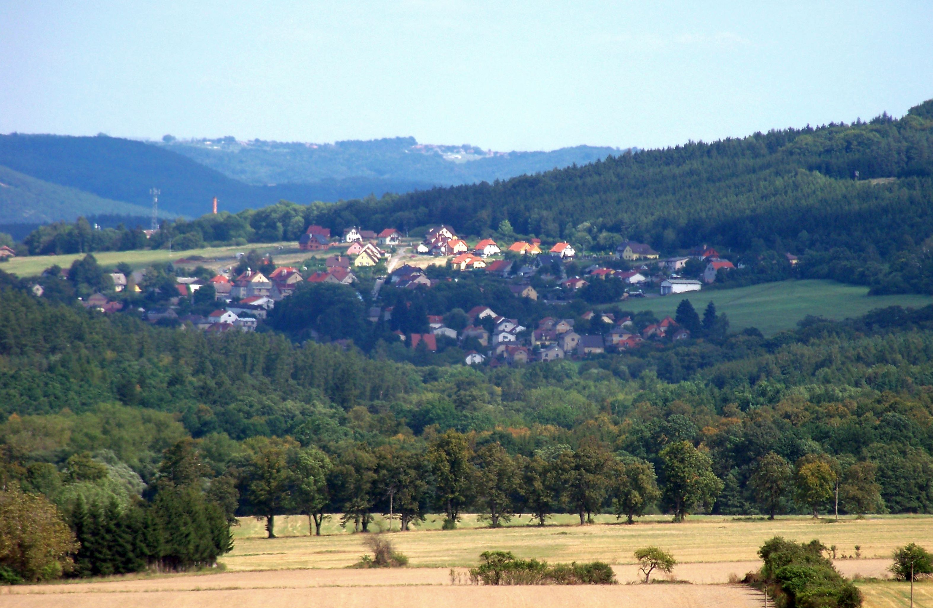 Rakovník District and Beroun District, Central Bohemian Region, the Czech Republic. A view of Nový Jáchymov from Špička Hill. - Google Maps - Google Earth